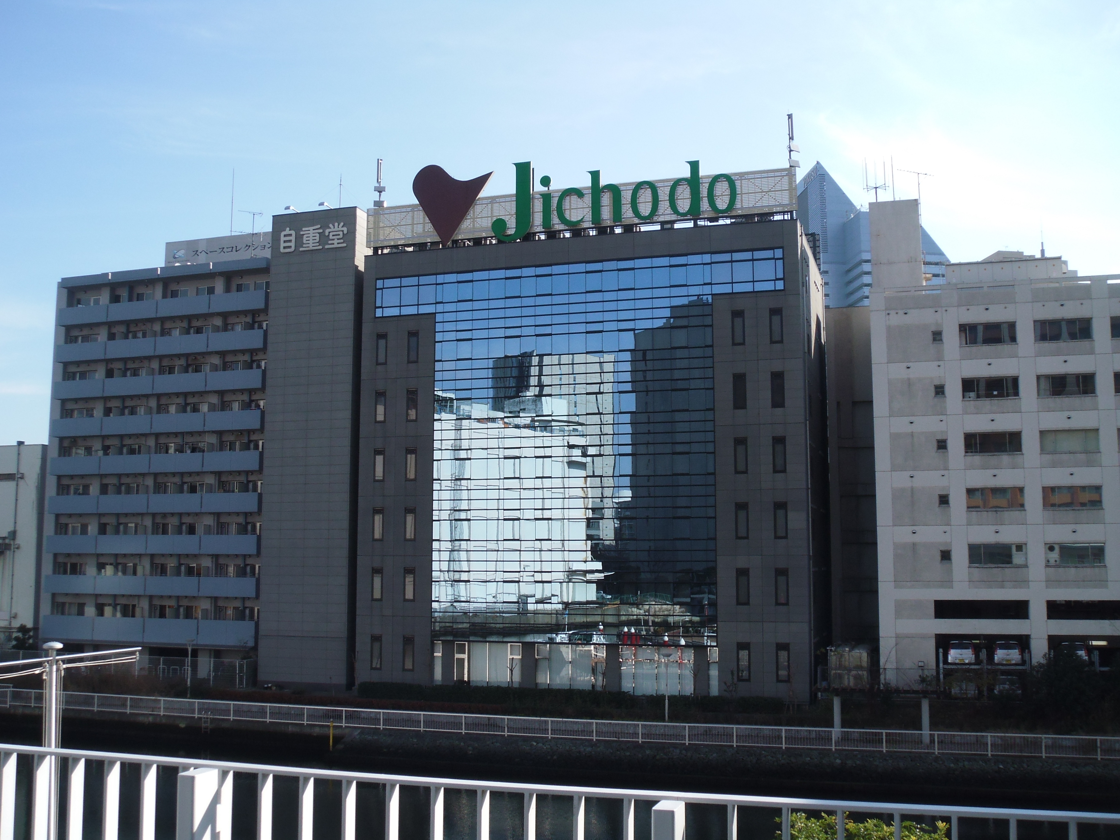 This building is Jichodo Tokyo branch at Minato. It was taken from Shibaura Island.